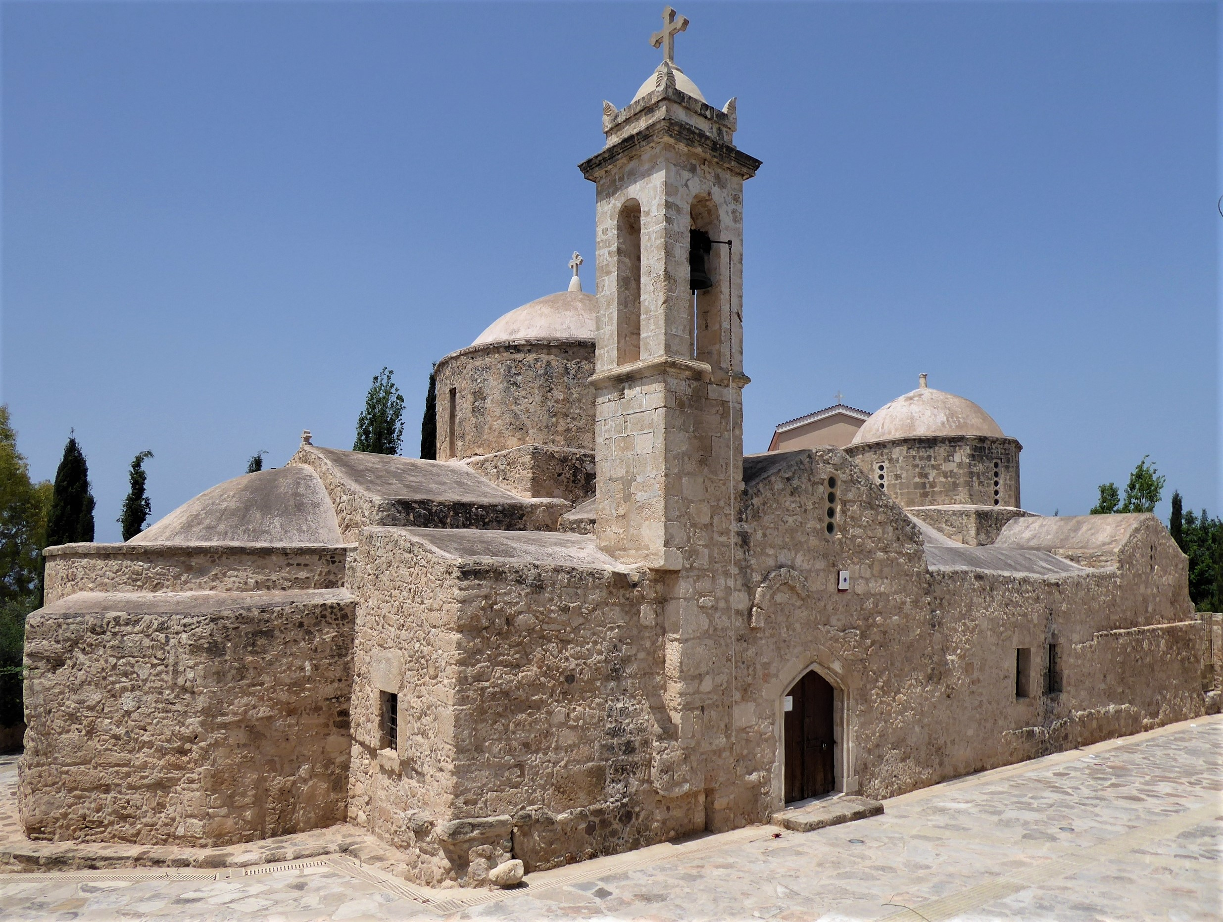 Panagia Chryseleousa, Emba